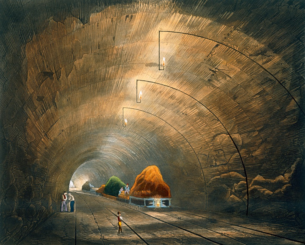 The Wapping tunnel connecting the Liverpool and Manchester Railway with the Wapping dock in Liverpool, as it was in the 1830s.